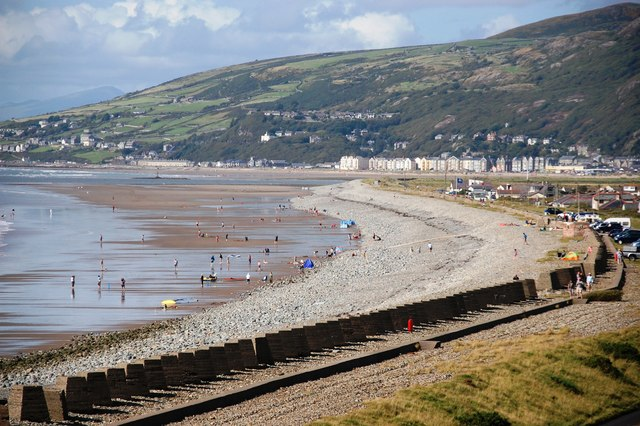 Beach at Fairbourne Beach at Fairbourne showing the dragon's teeth sea defences.